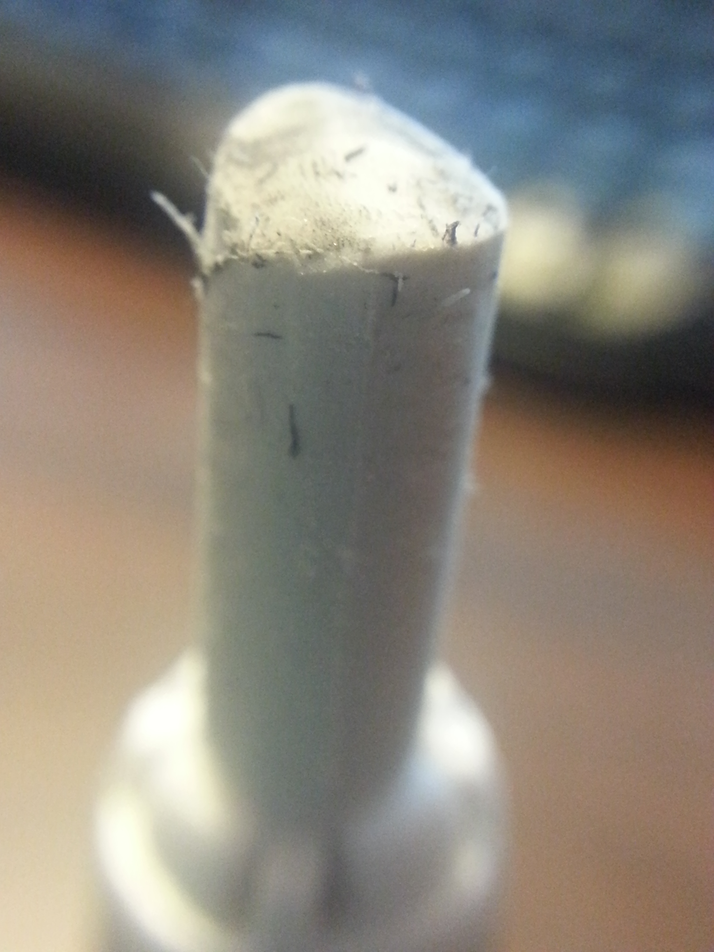 Close-up of a used, extended mechanical eraser. Taken 2014-06.